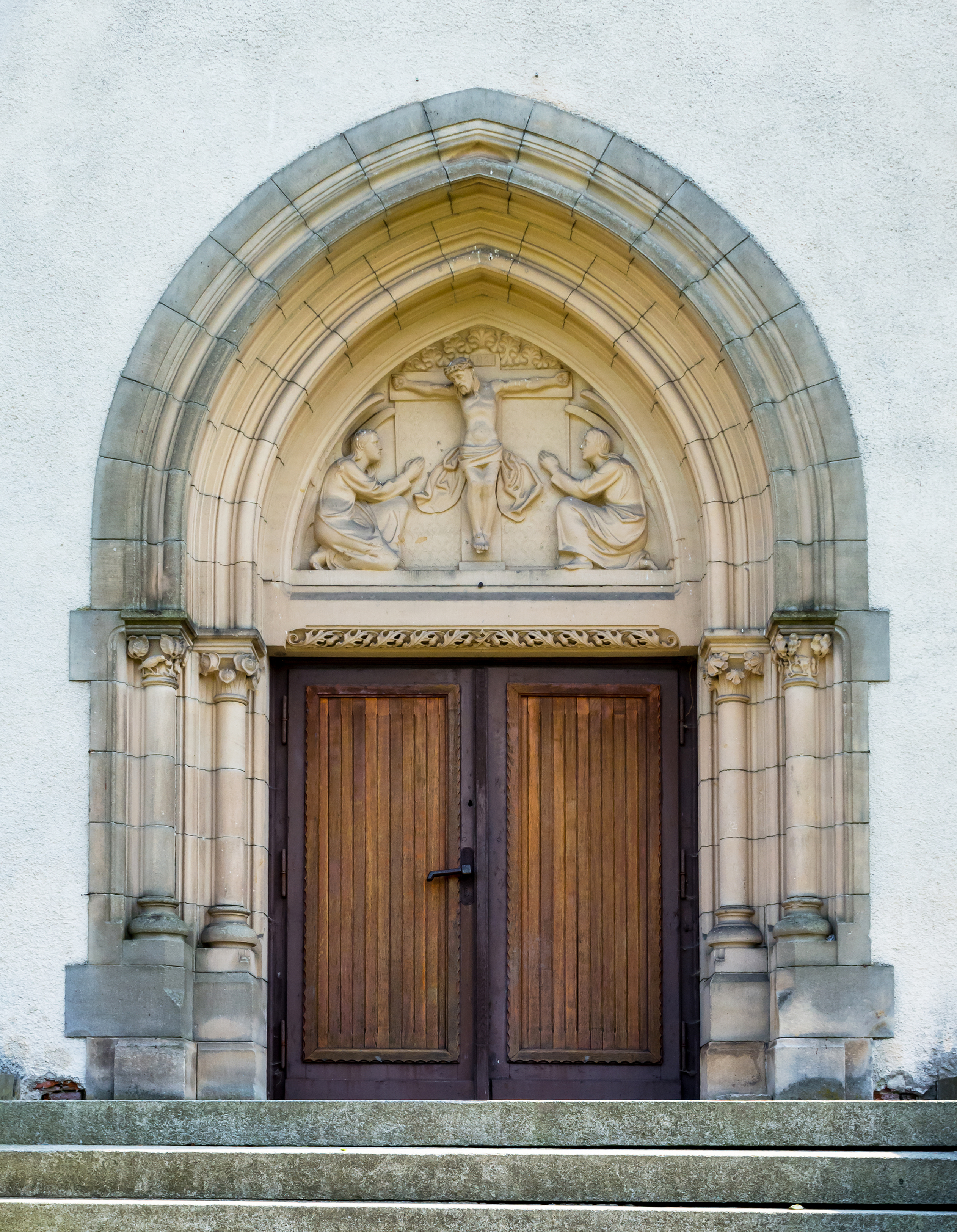 Christ's Resurrection Church in Stronie Śląskie, portal